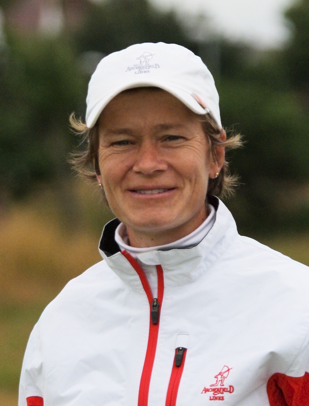 LYTHAM ST ANNES, UNITED KINGDOM - JULY 29: Catriona Matthew of Scotland walks off the 4th green during third practice round before 2009 Ricoh Women's British Open held at Royal Lytham & St Annes on July 29, 2009 in Lytham St Annes, England. (Photo by Wojciech Migda)